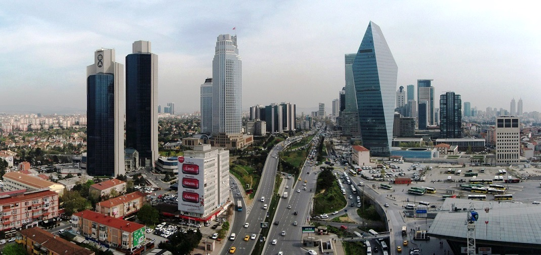 Levent business centers in Istanbul.